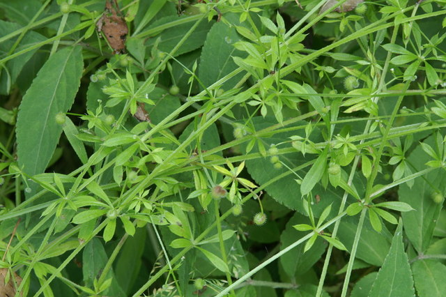 Goosegrass (Galium aparine), Loch Clunie Also known as Cleavers or Stickywilly, this is a common weed over most of Britain.